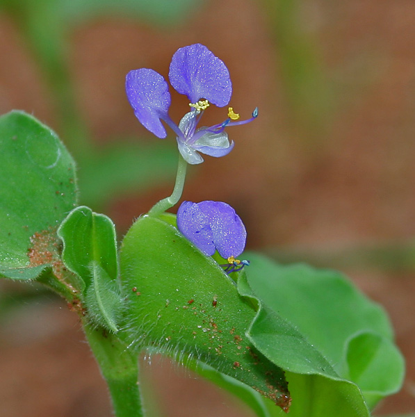 Kanpet Commelina benghalensis in Hyderabad , India.